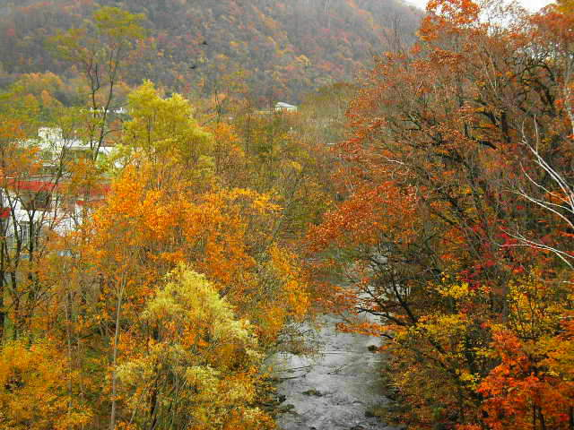 Misumai River, Sapporo, Japan.